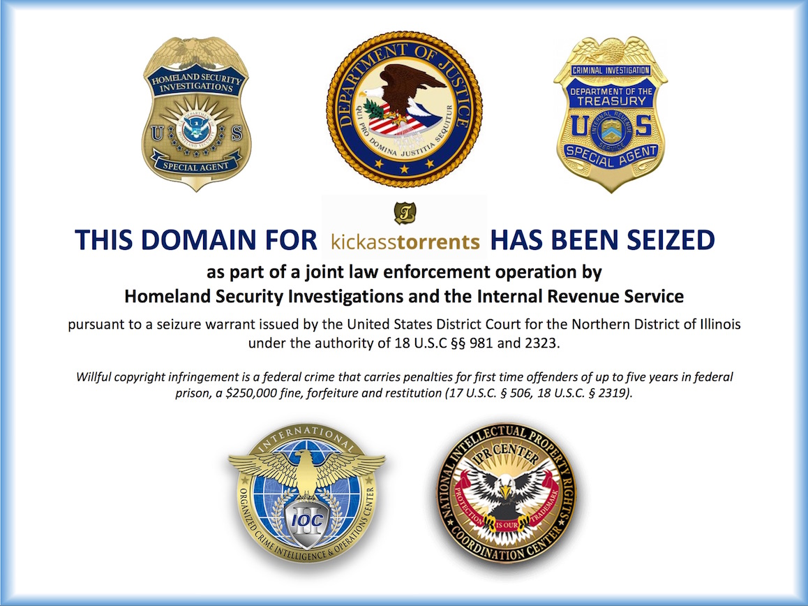 Notice displayed on kickass.to after its seizure by the US government.